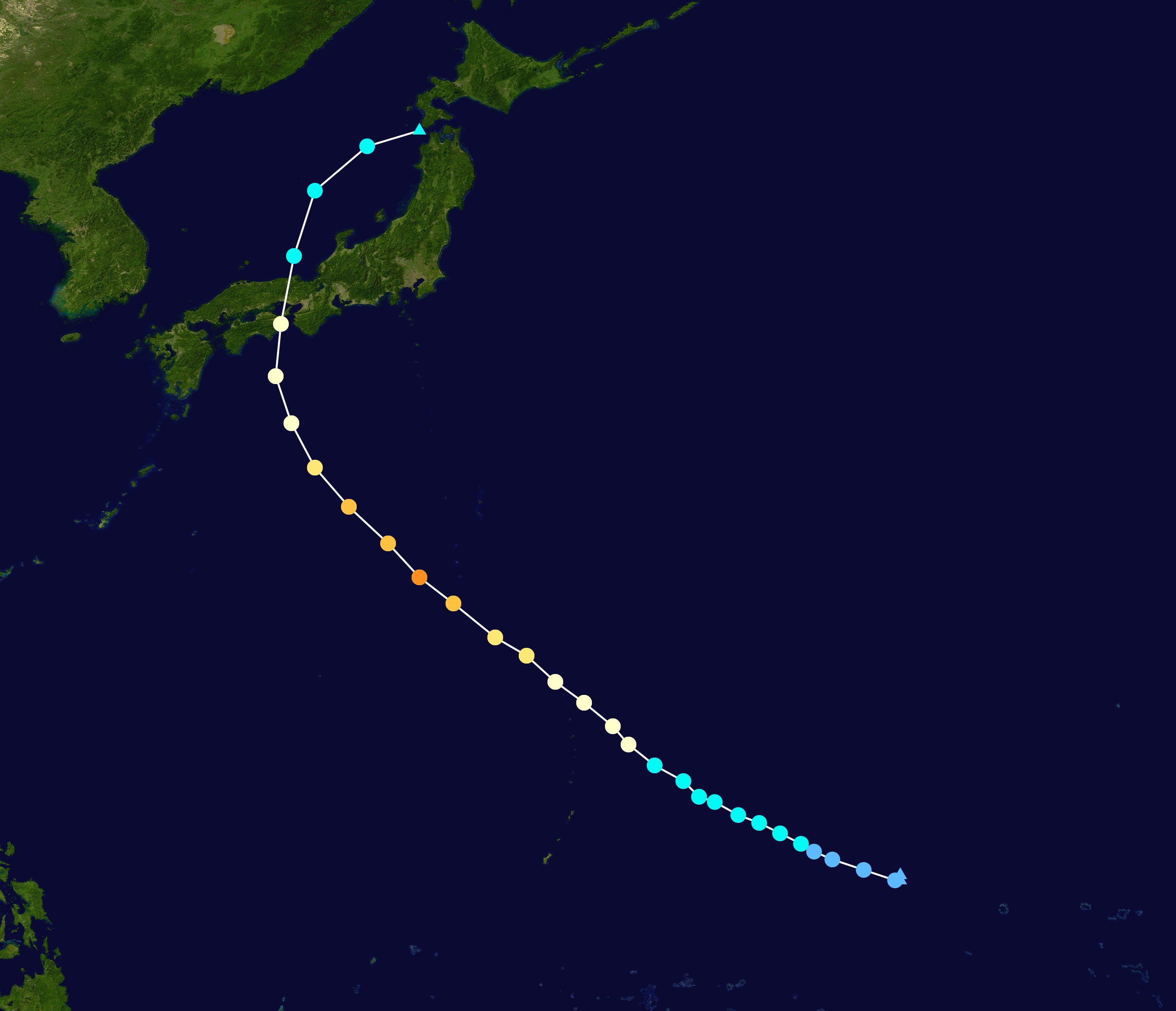 Track map of Typhoon Cimaron of the 2018 Pacific typhoon season. The points show the location of the storm at 6-hour intervals. The colour represents the storm's maximum sustained wind speeds as classified in the Saffir–Simpson scale (see below), and the shape of the data points represent the nature of the storm, according to the legend below. Saffir–Simpson scale Tropical depression≤38 mph≤62 km/h Category 3111–129 mph178–208 km/h Tropical storm39–73 mph63–118 km/h Category 4130–156 mph209–251 km/h Category 174–95 mph119–153 km/h Category 5≥157 mph≥252 km/h Category 296–110 mph154–177 km/h Unknown Storm type Tropical cyclone Subtropical cyclone Extratropical cyclone / Remnant low / Tropical disturbance / Monsoon depression